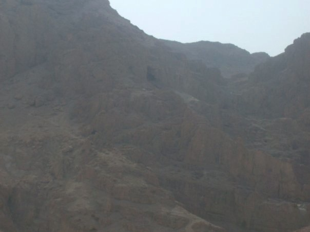 Qumran 2008 Summer